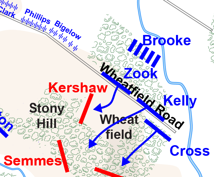 Gettysburg Day Second. Weatfield, Caldwell's attack